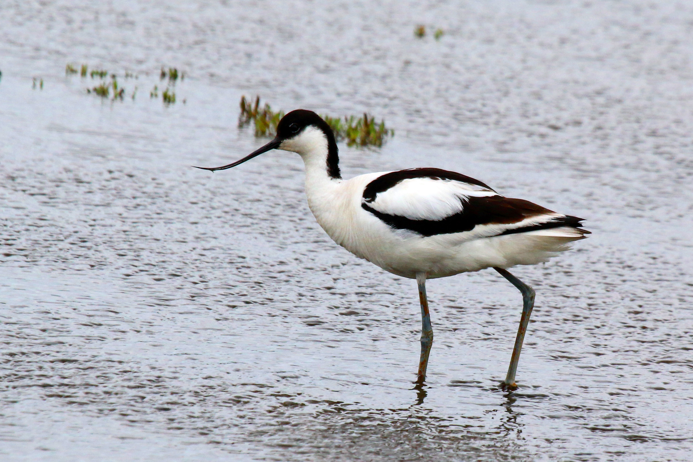 Avocet (Recurvirostra avosetta), Hickling Broad, Norfolk